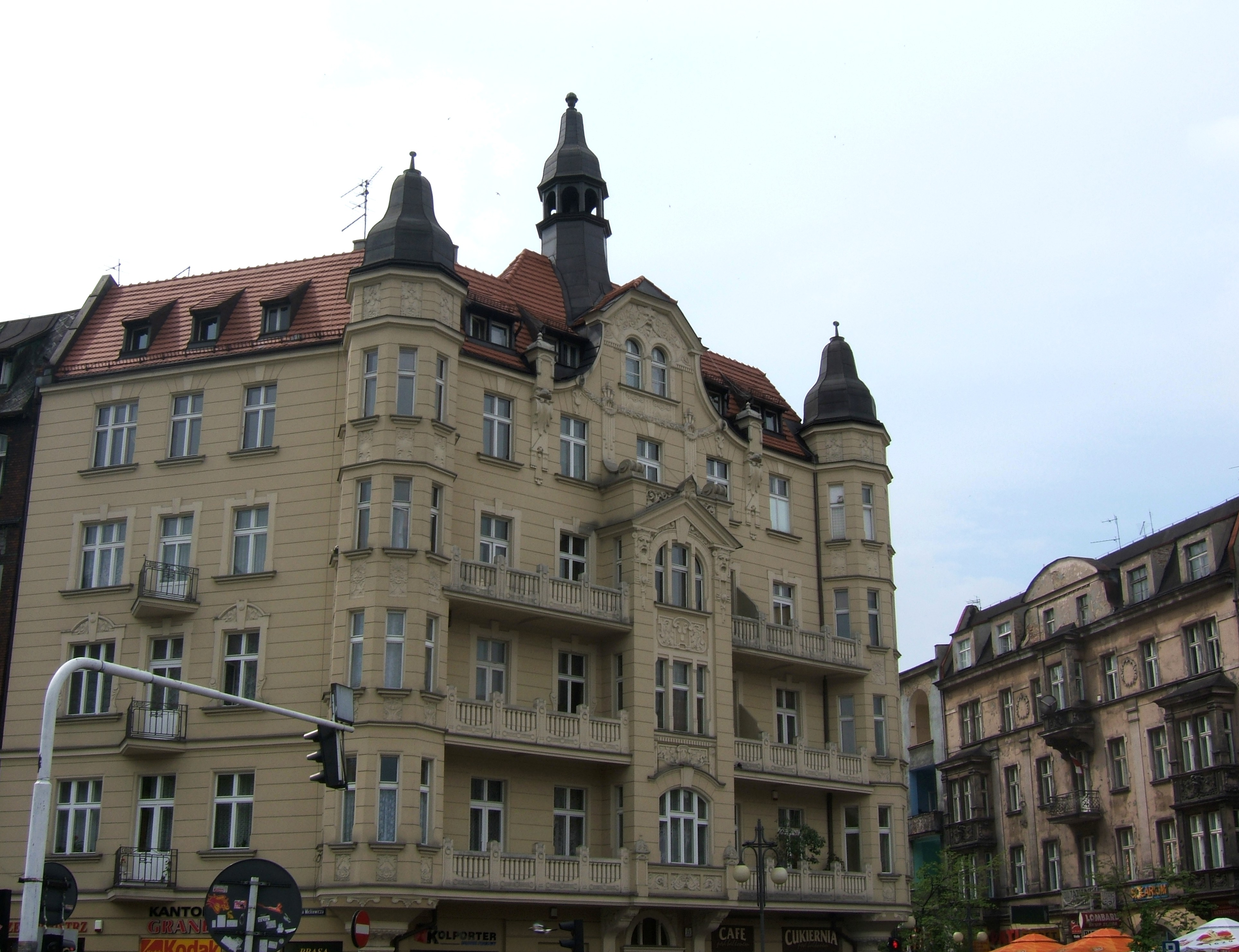 Corner building from 1906 at the ul. Mickiewicza/ul. Stawowa in Katowice.